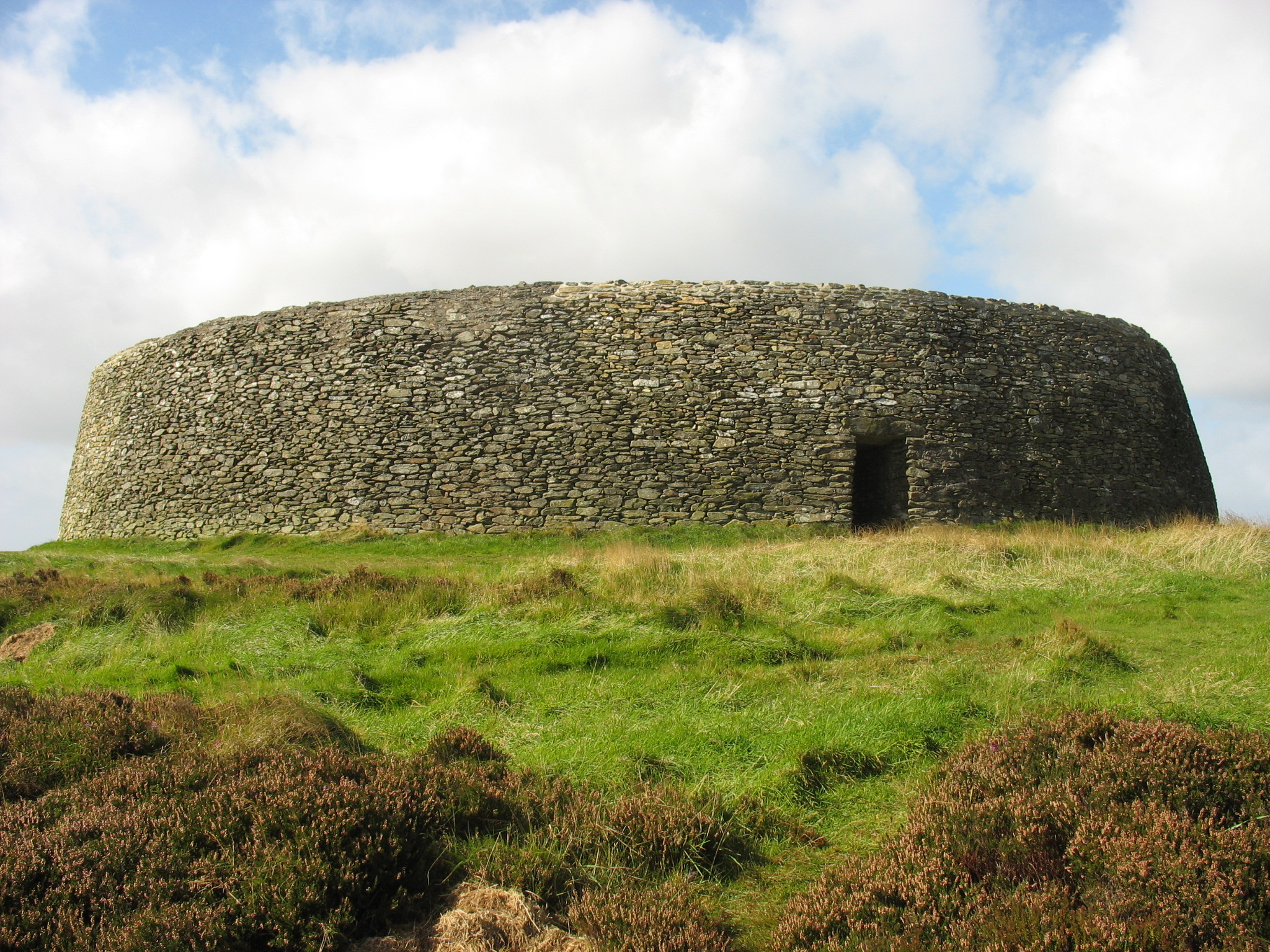 Grianan of Aileach, an early medieval ringfort in County Donegal, Ireland